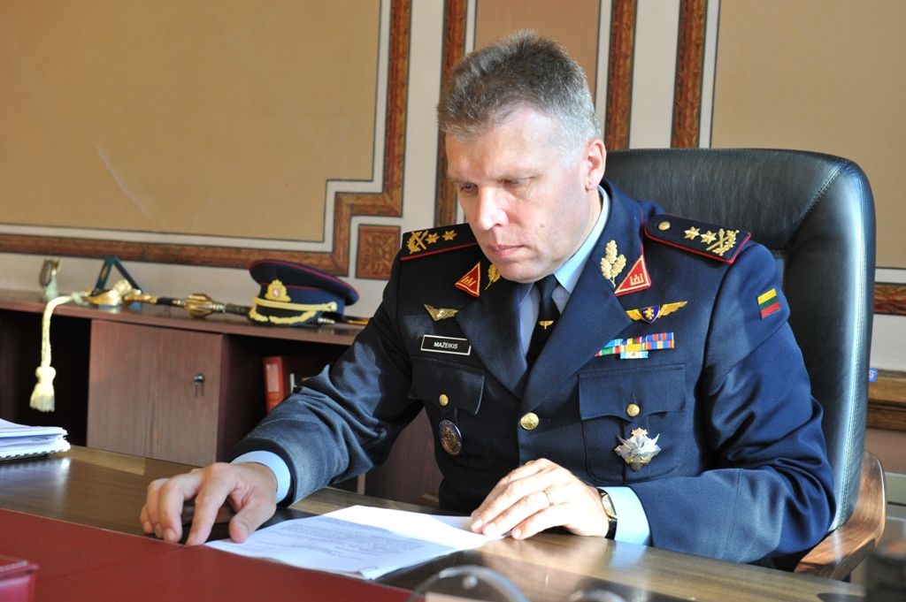 Commander of Lithuanian Air Force